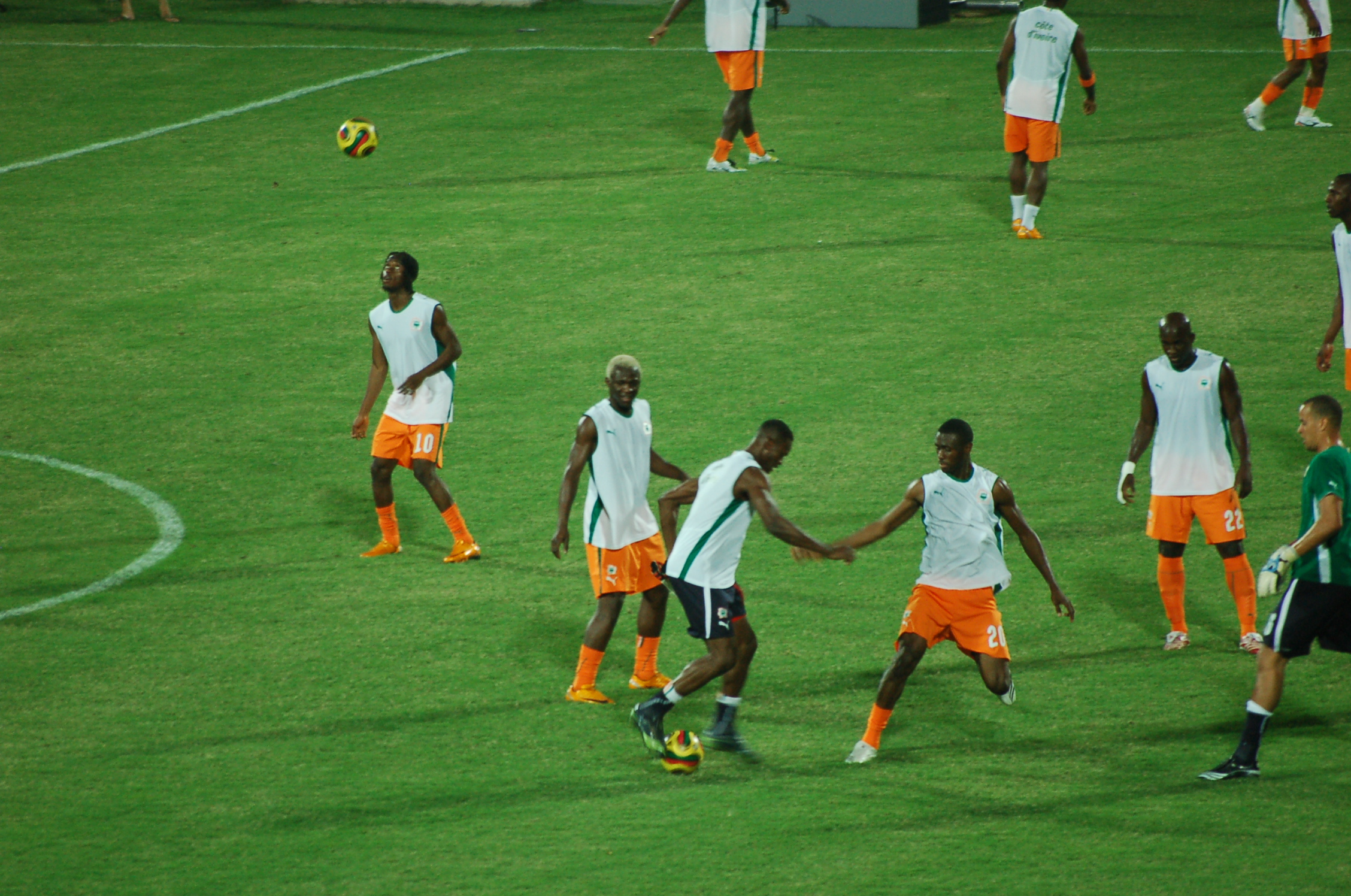 Taken by myself in Kumasi, Ghana. Arouna (second left) warms up with Ivorian teammates at African Cup of Nations 2008 in Ghana.